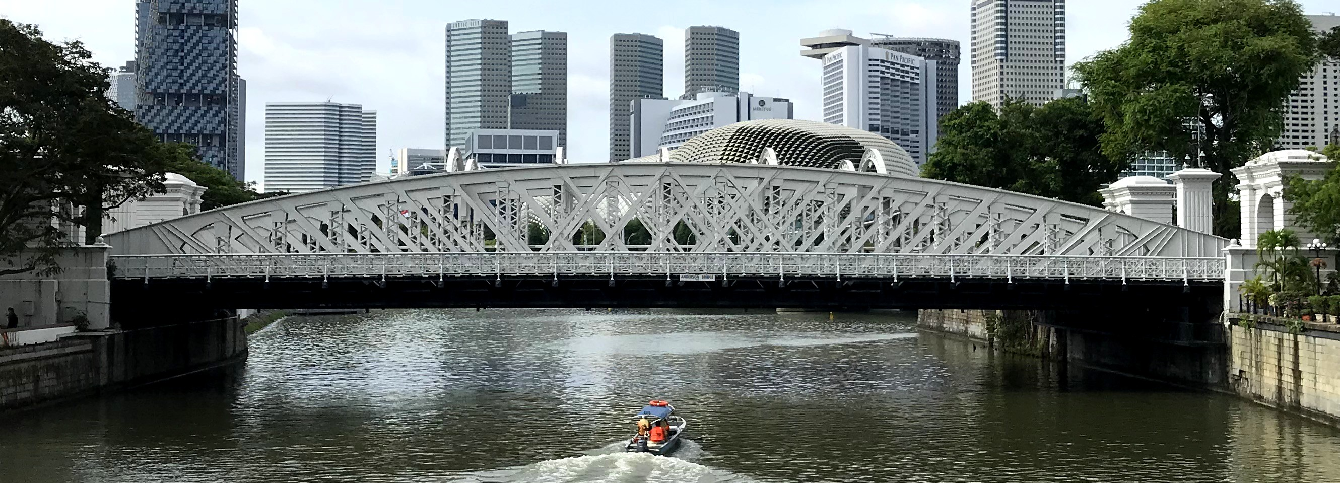 The Anderson Bridge in Singapoore. It straddles the mouth of the Singapore River and connects Empress Place with Collyer Quay. It was named after John Anderson, governor of the Straits Settlements and high commissioner for the Federated Malay States. The bridge was officially opened on 12 March 1910.2